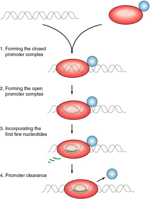 INITIATION AND ELONGATION